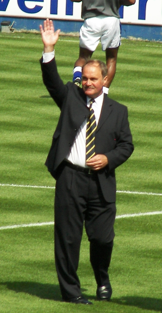 Mick Mills, former Ipswich and England captain